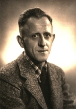 Willy Wirthgen, deutscher Widerstandskämpfer gegen den Nationalsozialismus und Opfer des Faschismus.